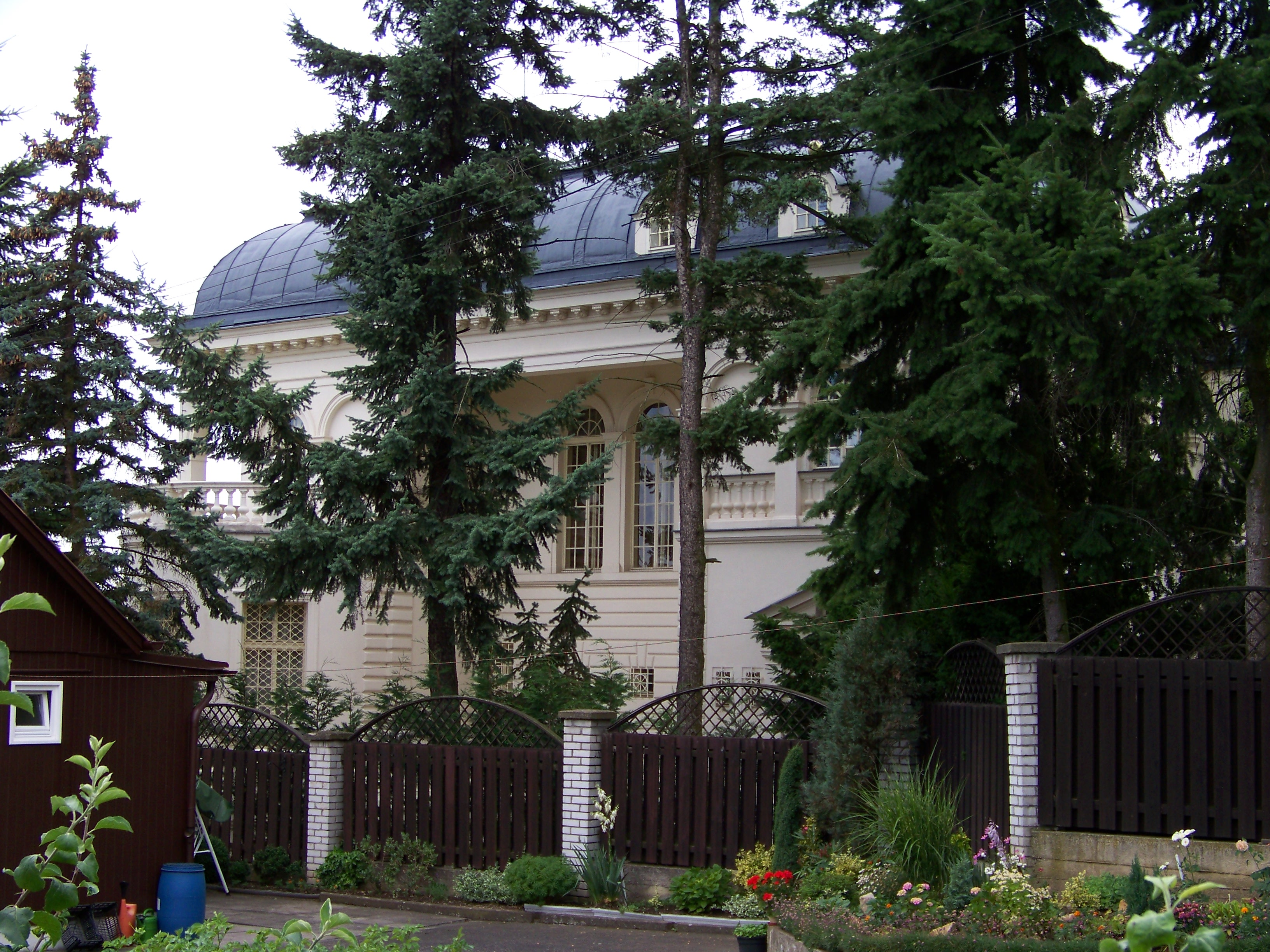 Jíloviště, Prague-West District, Central Bohemian Region, the Czech Republic. K Trnové street, a view of Hubertus Hotel (also called Jíloviště Castle). - Google Maps - Google Earth